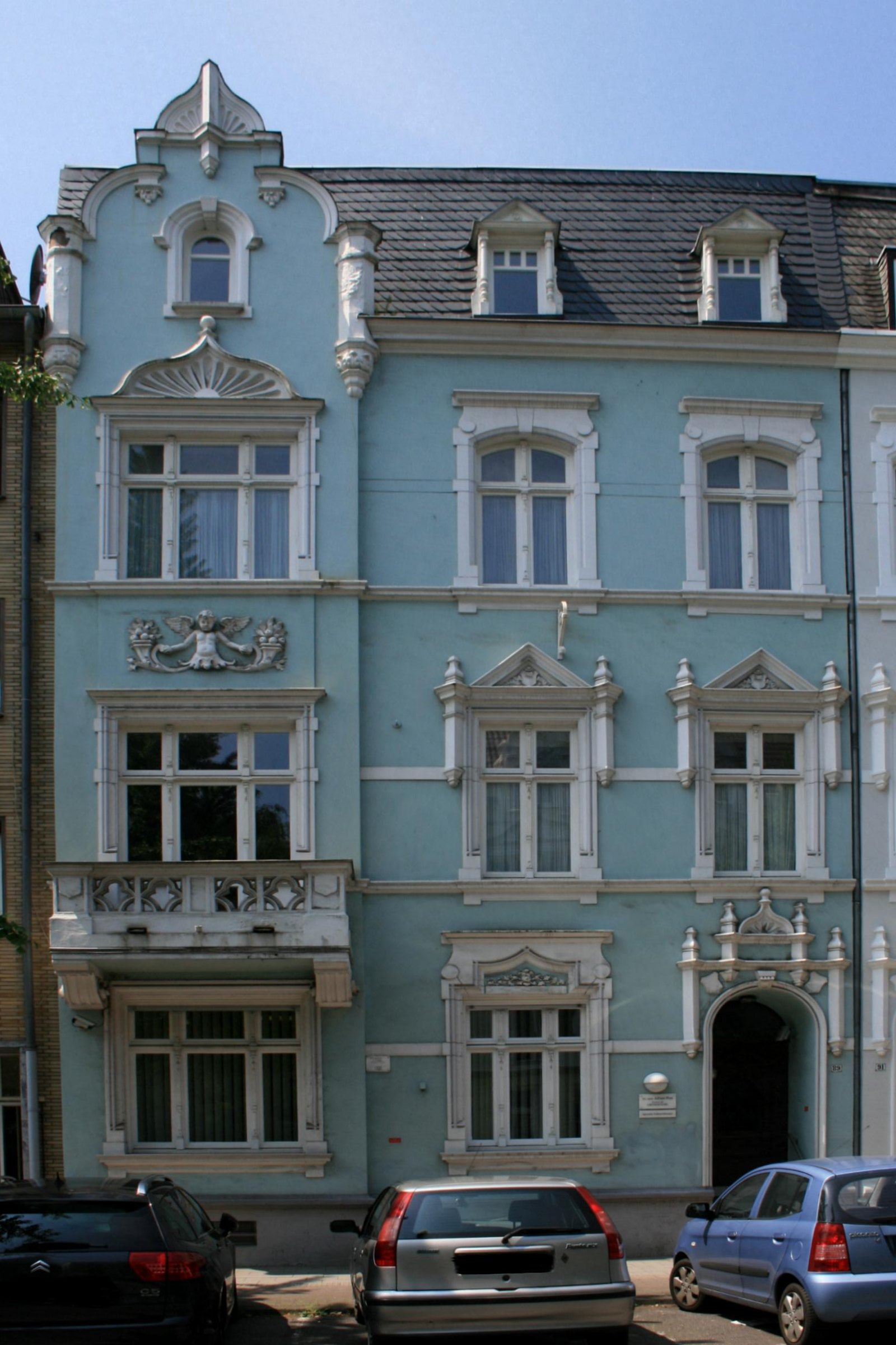 Cultural heritage monument No. B 027 in Mönchengladbach